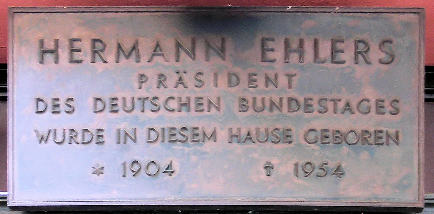 Memorial plaque, Hermann Ehlers, Gotenstraße 6, Berlin-Schöneberg, Germany